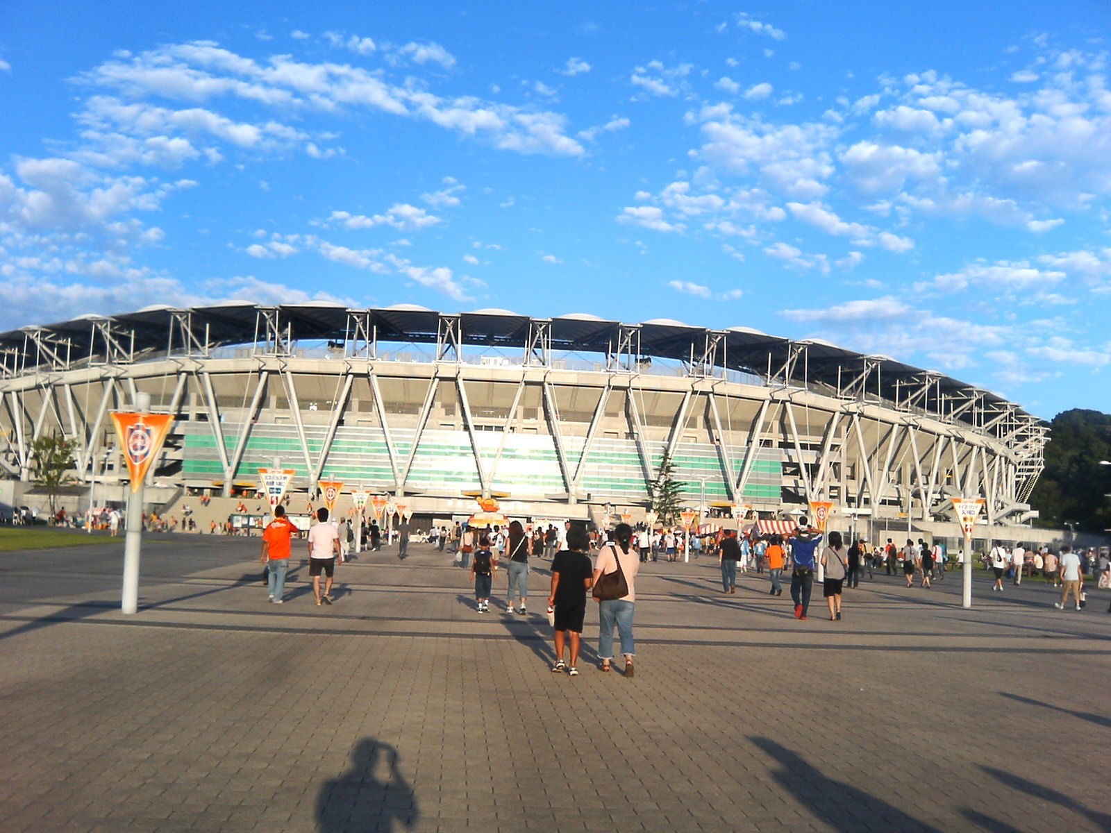 Ecopa Stadium Shizuoka Prefecture 2006. This is the stadium used by Shimizu S-Pulse and Jubilo Iwata in addition to their home stadiums